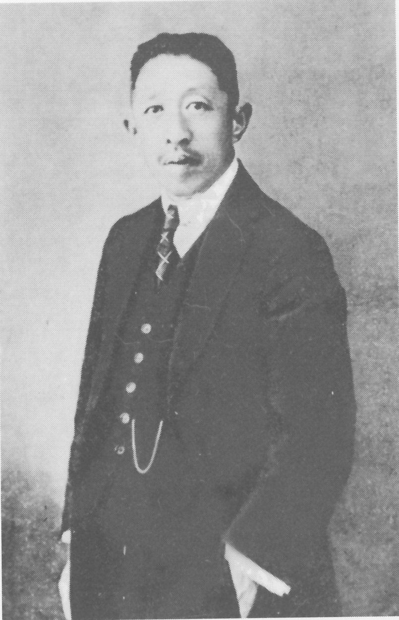 Liao Zhongkai (Liao Chung-k'ai) (1877 - 1925)